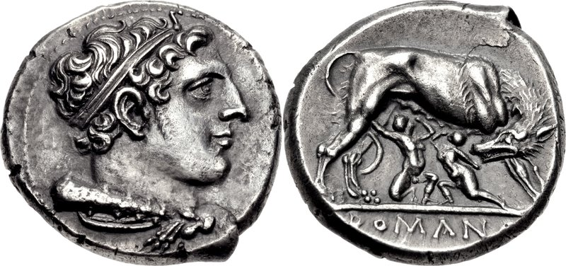 Rome Anonymous. Circa 264-255 BC. AR Didrachm (20mm, 6.87 g, 6h). Rome mint. Diademed head of Hercules right, wearing lion skin around neck; club on shoulder She-wolf standing right, head left, suckling twins; ROMANO in exergue. EF, toned. Exceptional strike for issue.